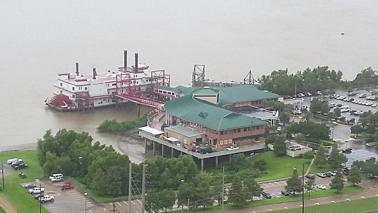 Hollywood Casino Baton Rouge, a riverboat casino in Baton Rouge, Louisiana